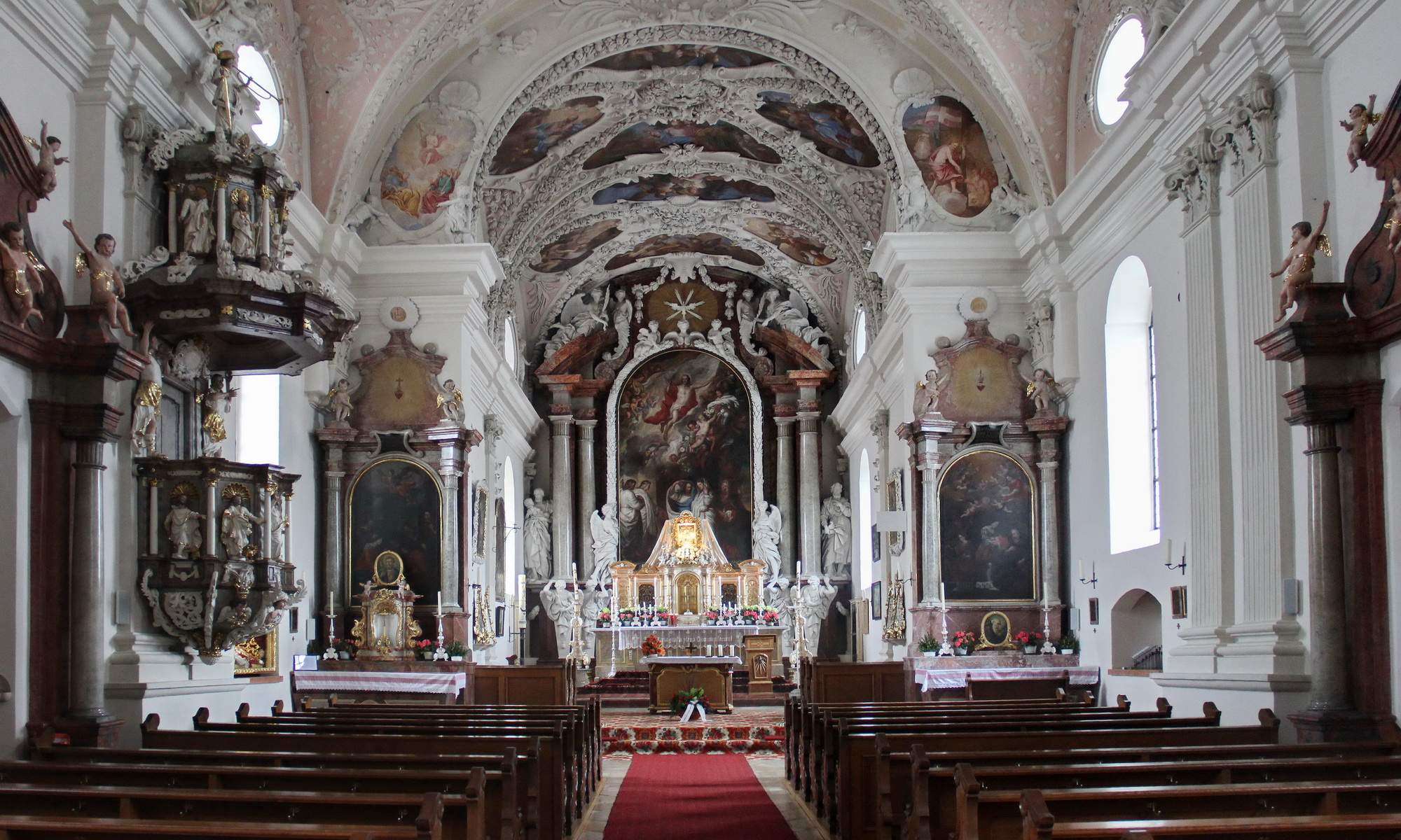 Church of Gartlberg Native nameWallfahrtskirche GartlbergLocationPfarrkirchen, Lower Bavaria, GermanyCoordinates48° 26′ 09.83″ N, 12° 56′ 32.33″ E